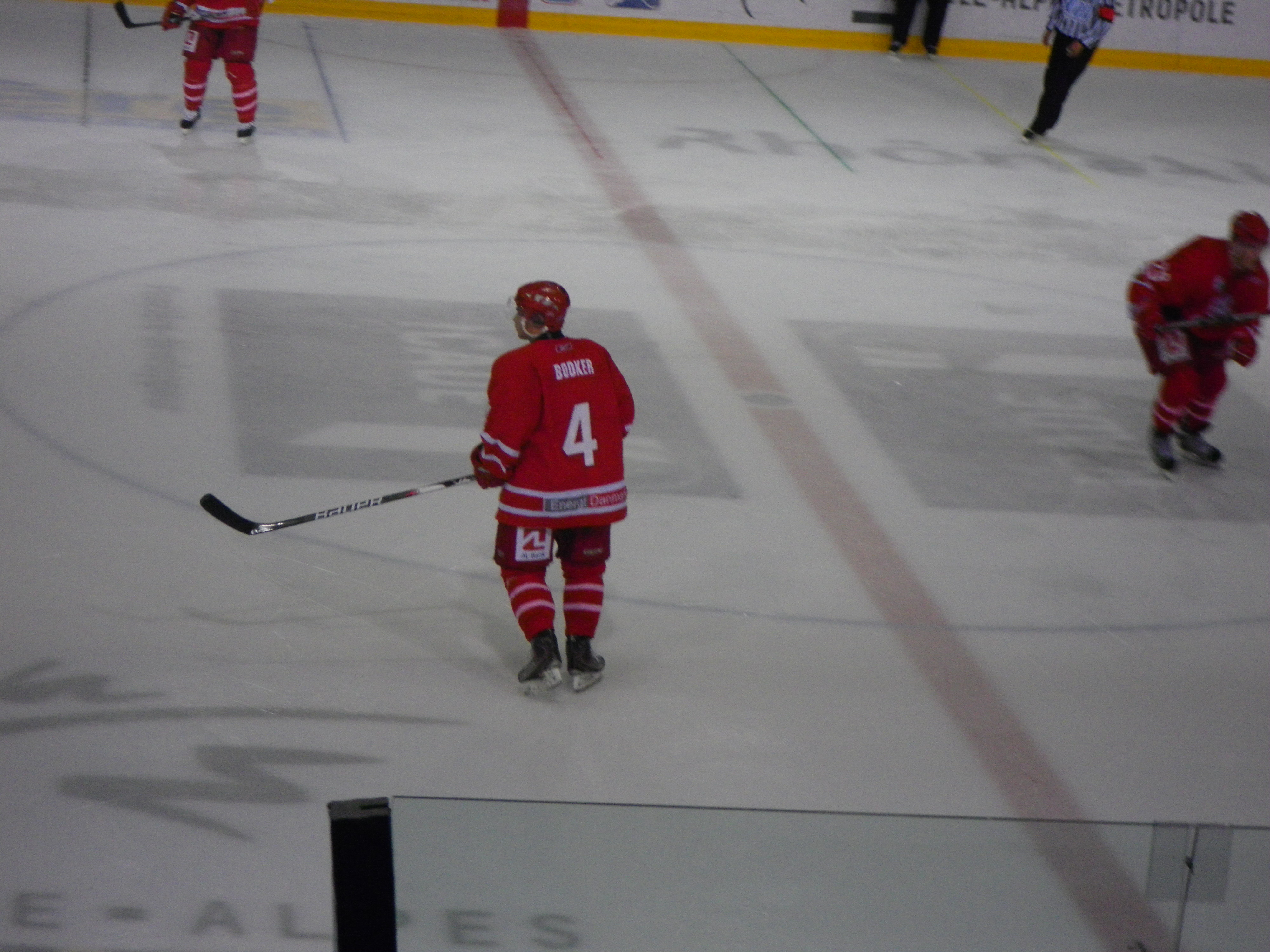 Mads Bødker, danish ice hockey player with team Denmark. Friendly against team France.